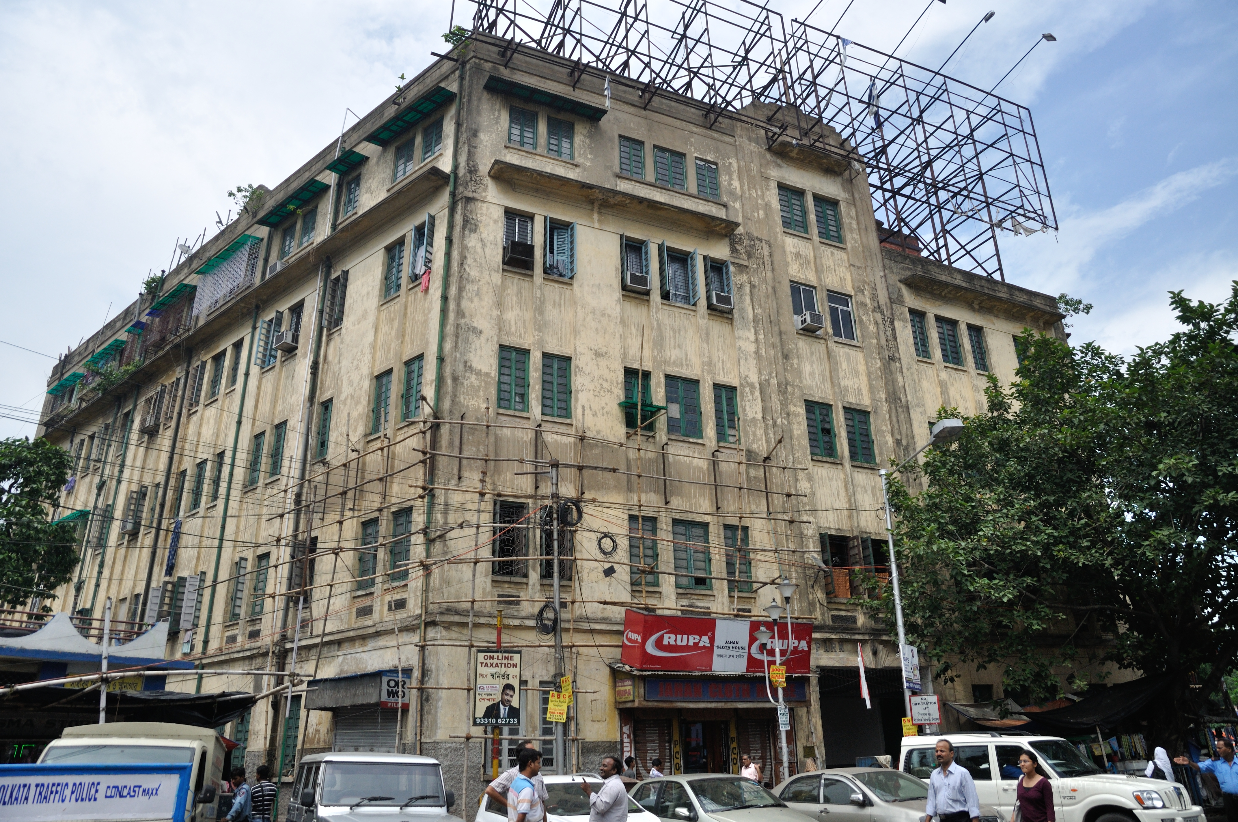 Photographed in Kolkata.